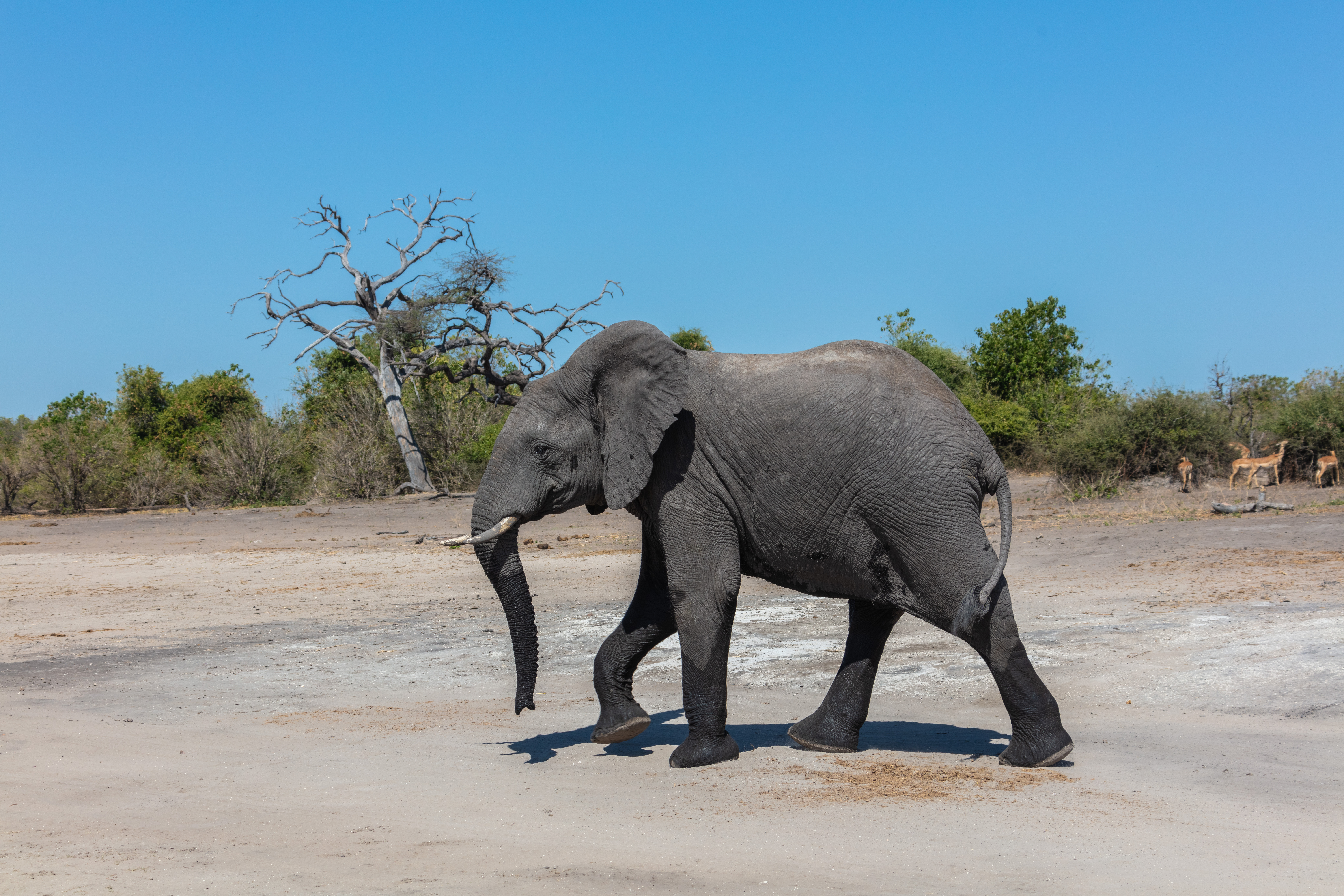 African bush elephant (Loxodonta africana), Chobe National Park, Botsuana